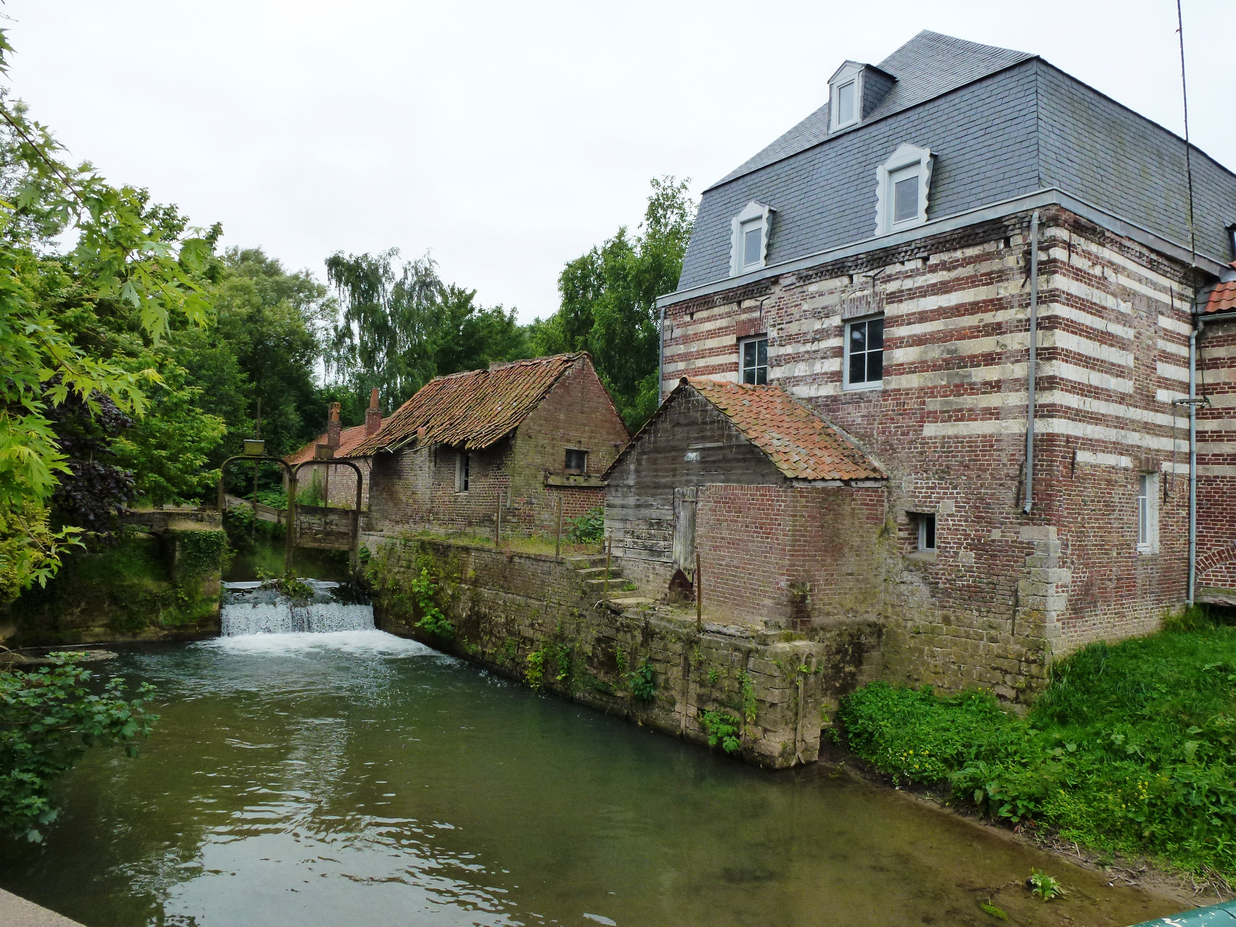 Witternesse (Pas-de-Calais) moulin sur La Laquette